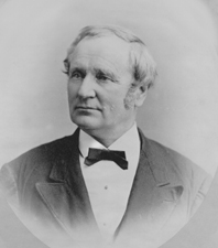 Congressional photograph of Thomas A. Hendricks